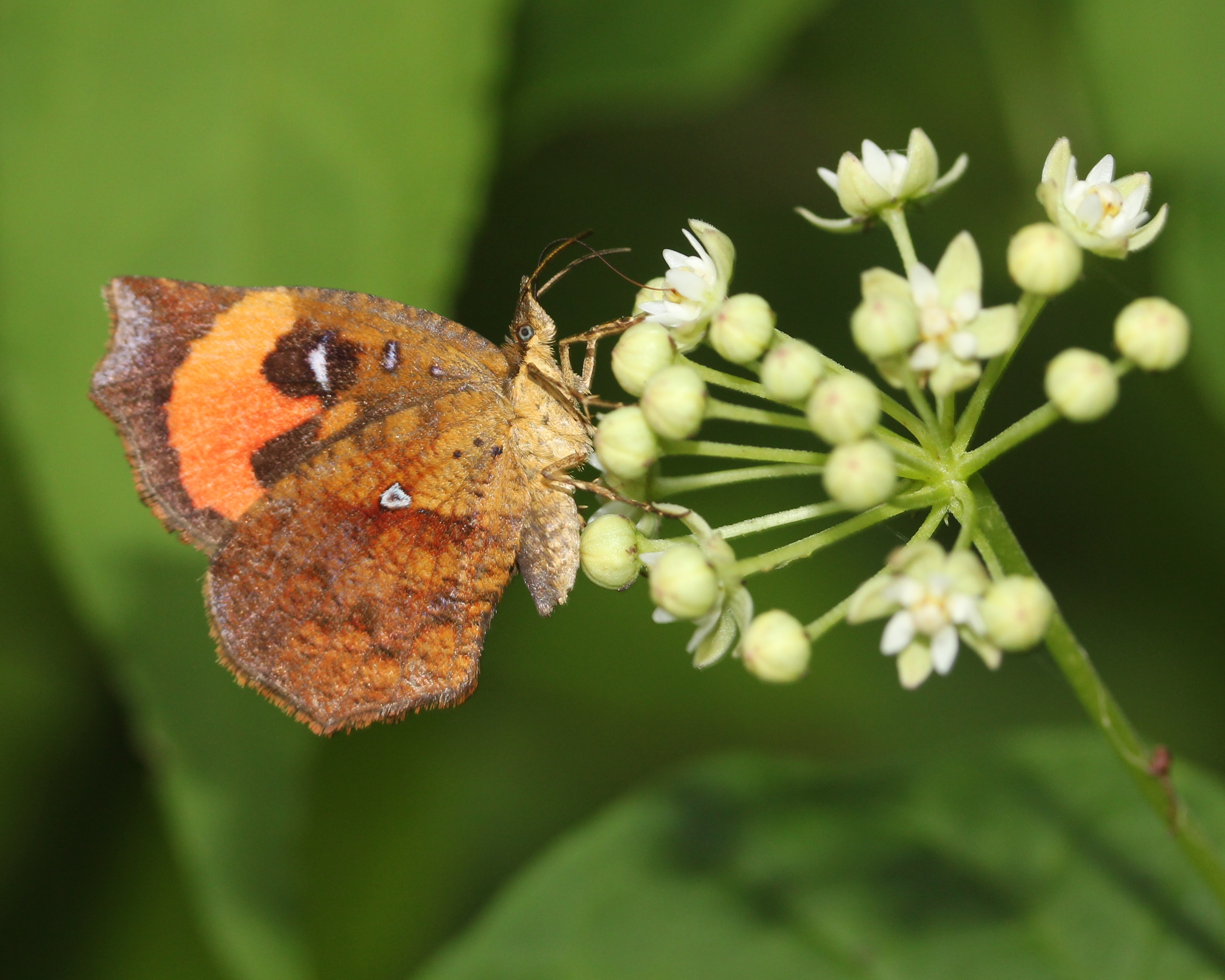 Pterodecta felderi feeding nectar of Cynanchum caudatum in Mount Hijiri, Iida city, Nagano prefecture, Japan.